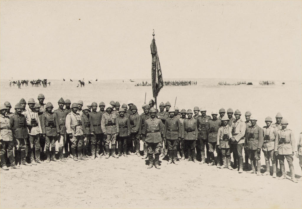 Officers of the regiment that successfully defended Gaza during the first battle.